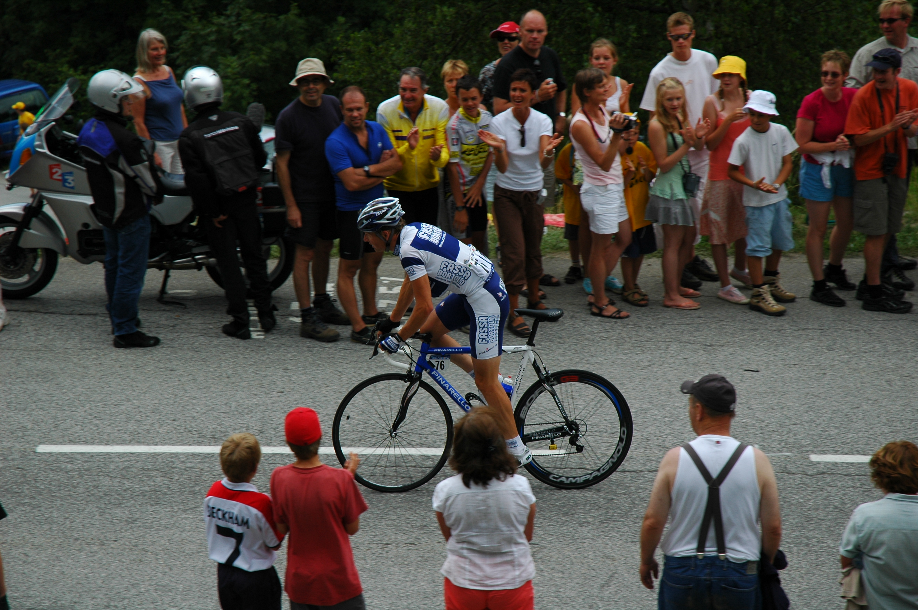 10th stage. Dario Frigo.